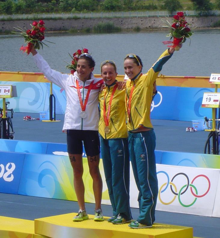 The victory ceremony for the medalists of the women's triathlon at the 2008 Summer Olympics. From the left: Vanessa Fernandes, Emma Snowsill, Emma Moffatt